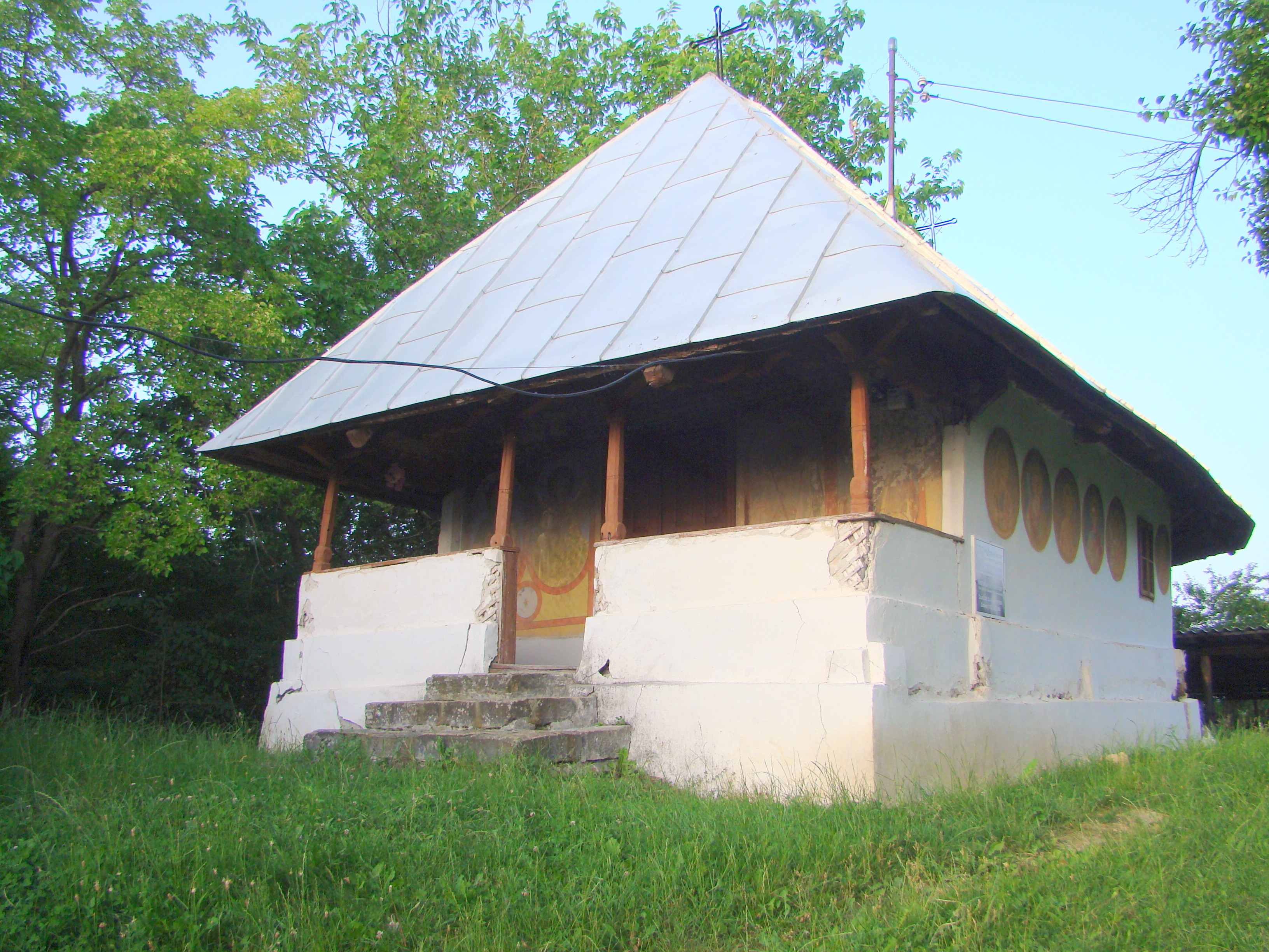 Wooden church in Seciurile, Gorj county, Romania